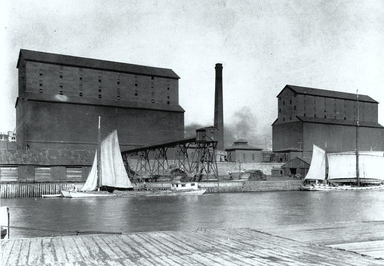 Photograph, C.P.R. elevators, Montreal harbour, QC, 1909, Anonymous, Silver salts on paper mounted on paper - Gelatin silver process - 20 x 25 cm